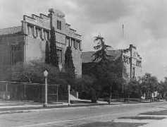 The front face of Atwater Avenue Elementary School circa 1926